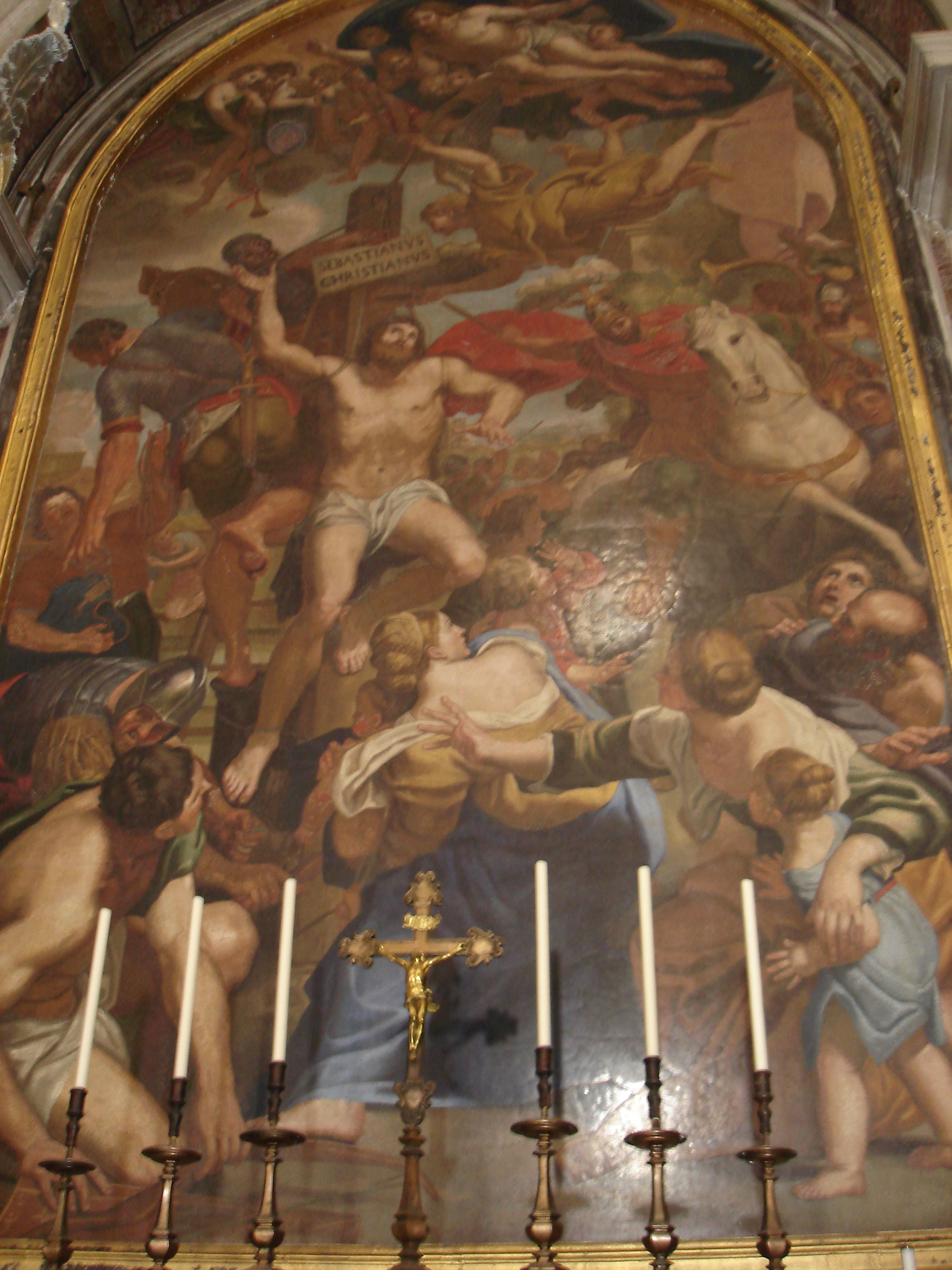 Chapel of Saint Sebastian in Saint Peter's Basilica